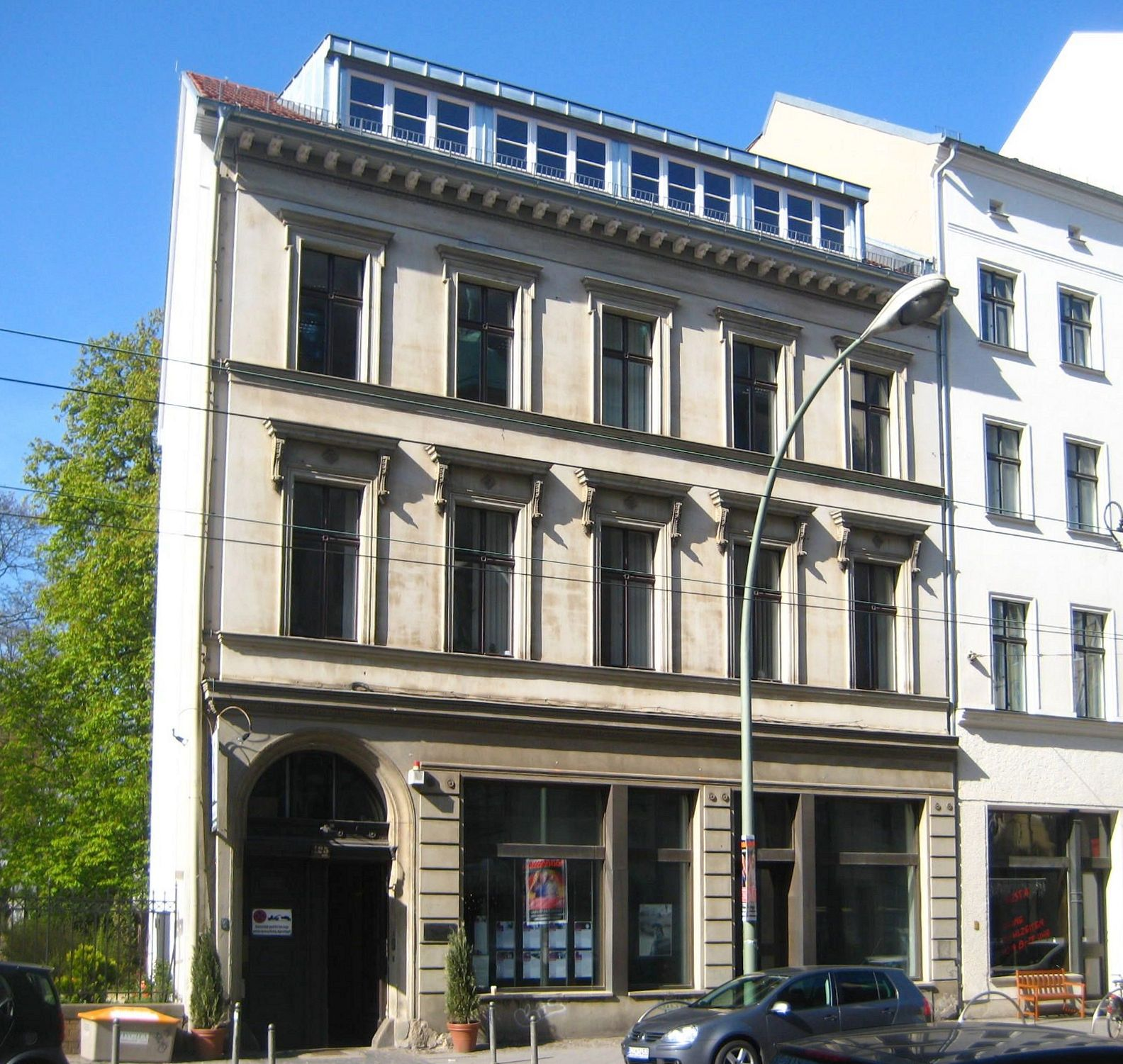 Front building of the Bertolt Brecht House at Chausseestraße No. 125 in Berlin-Mitte. It was built in 1943. From 1953 on, Bertolt Brecht and Helene Weigel lived in the rear building of this house. It has been dedicated as a historic landmark.